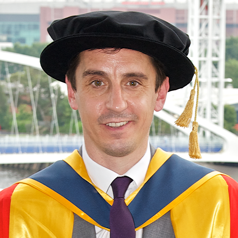 Manchester United and England legend Gary Neville added a non-footballing title to his impressive list of honours today (Friday 18 July) when he was awarded an honorary doctorate by the University of Salford. The England coach and Sky Sports pundit received a doctor of science award from Salford Business School in recognition of his dedication to promoting the importance of sustainability in the sports and property development industries. Cropped.